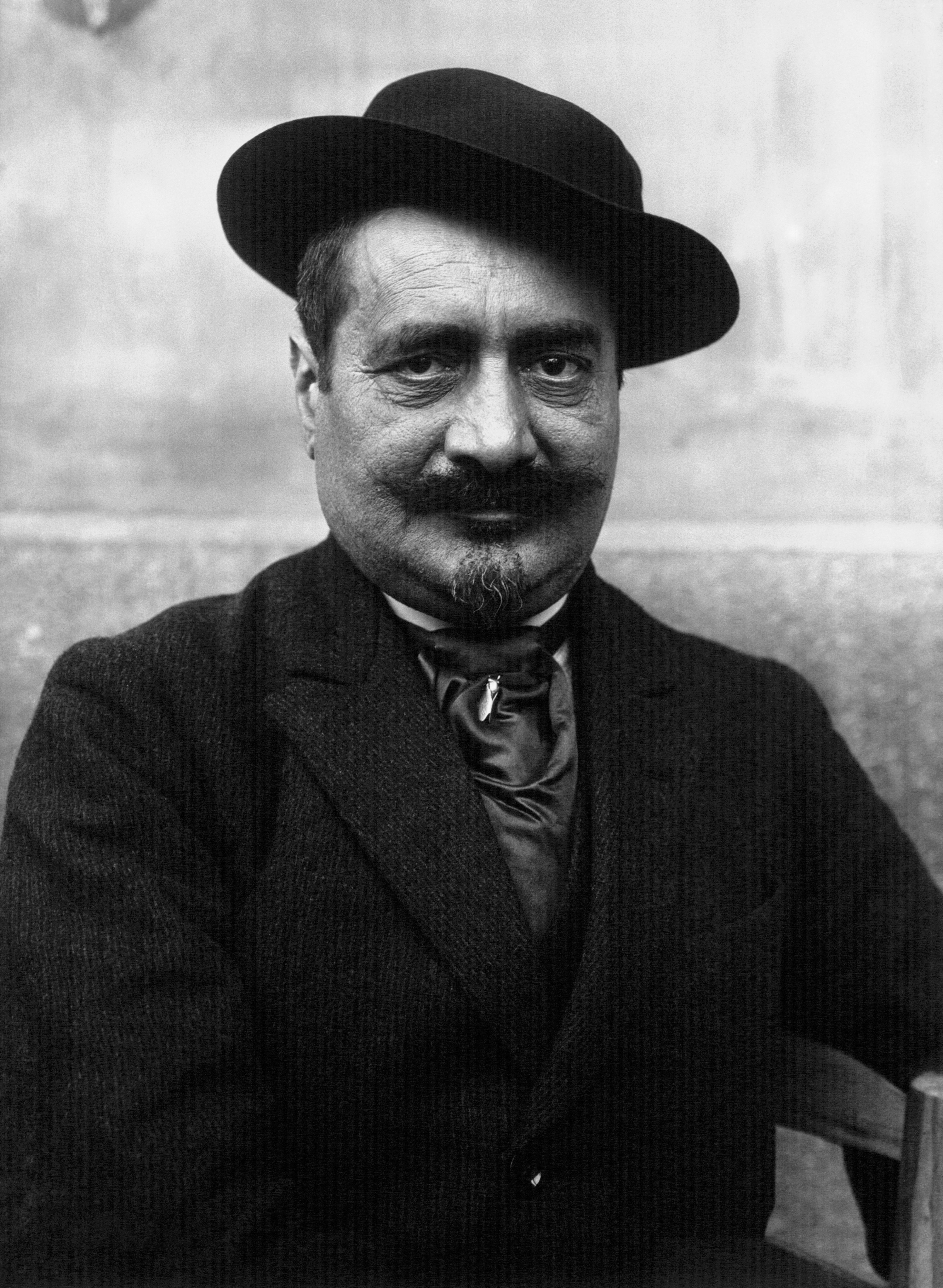 Portrait of the Occitan politician Alexandre Blanc